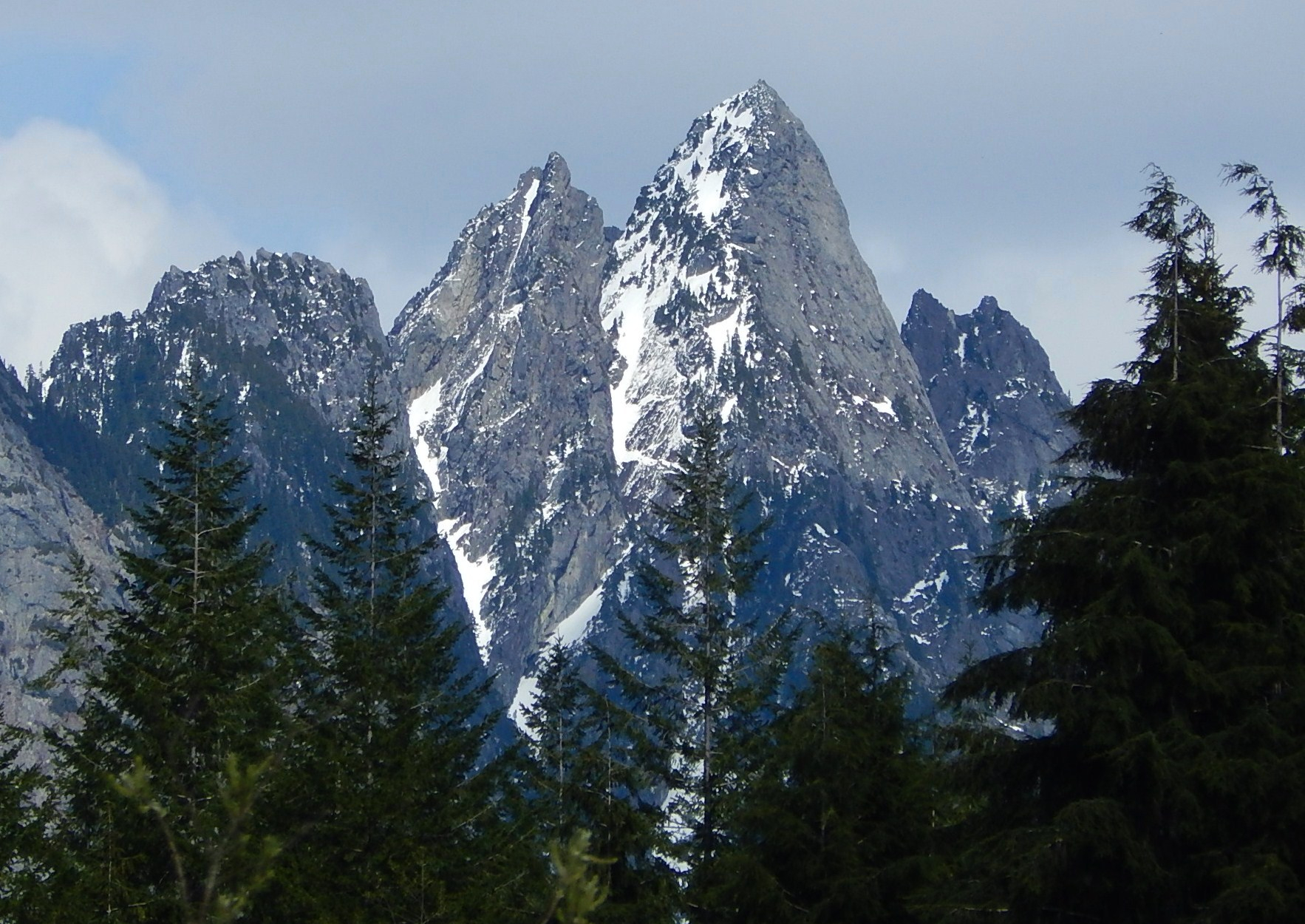 Garfield Mountain aka Mount Garfield